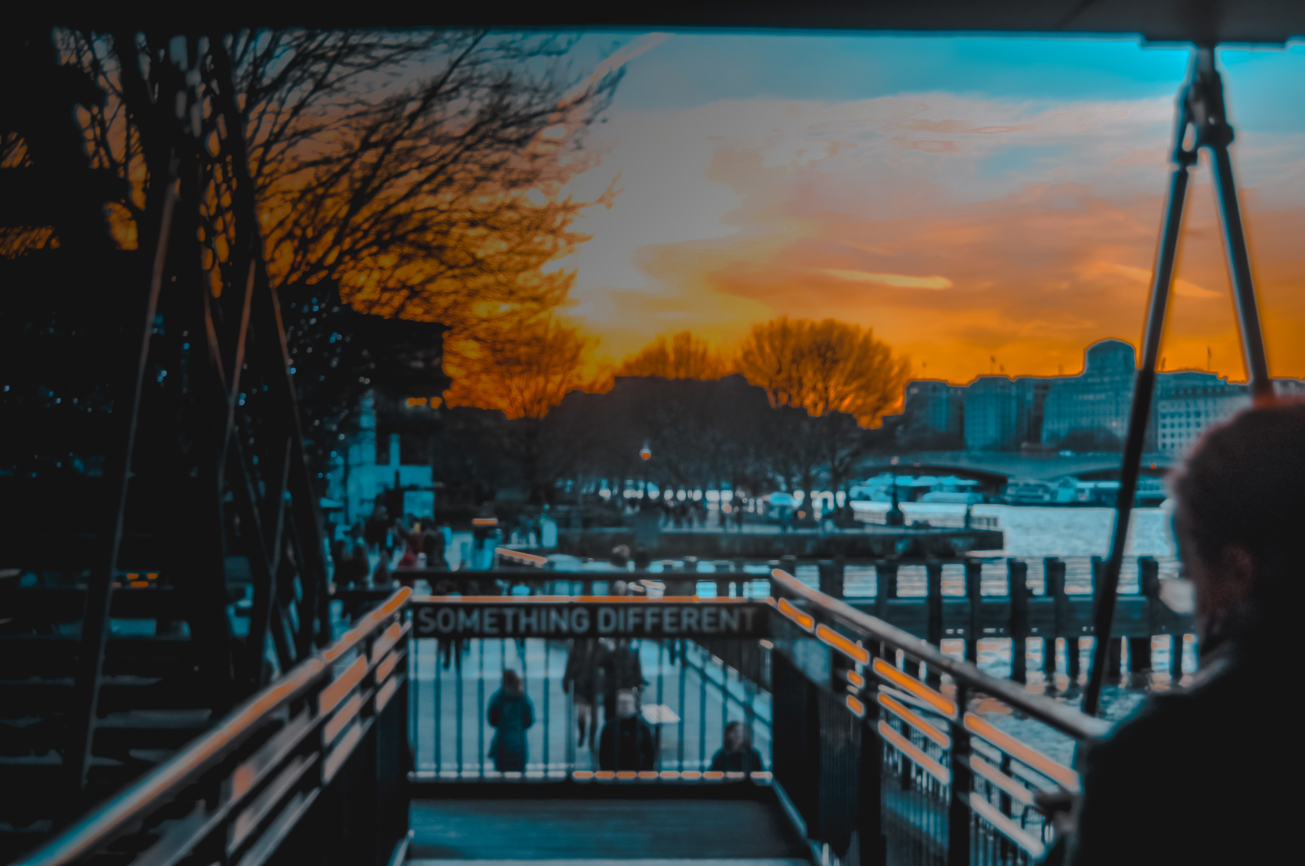 A first go at Teal and Orange ...so much easier with Lightroom